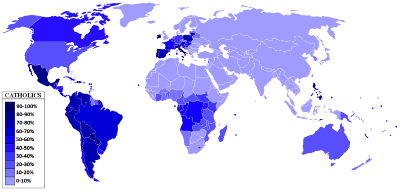 Percentage of Catholics in the World